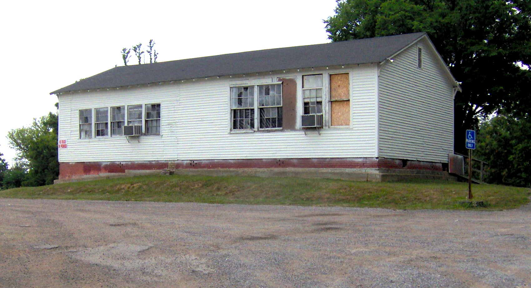 The Free Hills Community Center, formerly the Free Hills Rosenwald School in Free Hill, Tennessee, in the southeastern United States. The school was built in the 1920s with help from the Julias Rosenwald Fund, which provided funds to build schools for African-Americans. Free Hill is a rural community in the hills north of Celina, Tennessee, formed by freed slaves sometime in the 1830s or 1840s. The school operated until schools in the southeastern U.S. were desegregated in the 1960s.